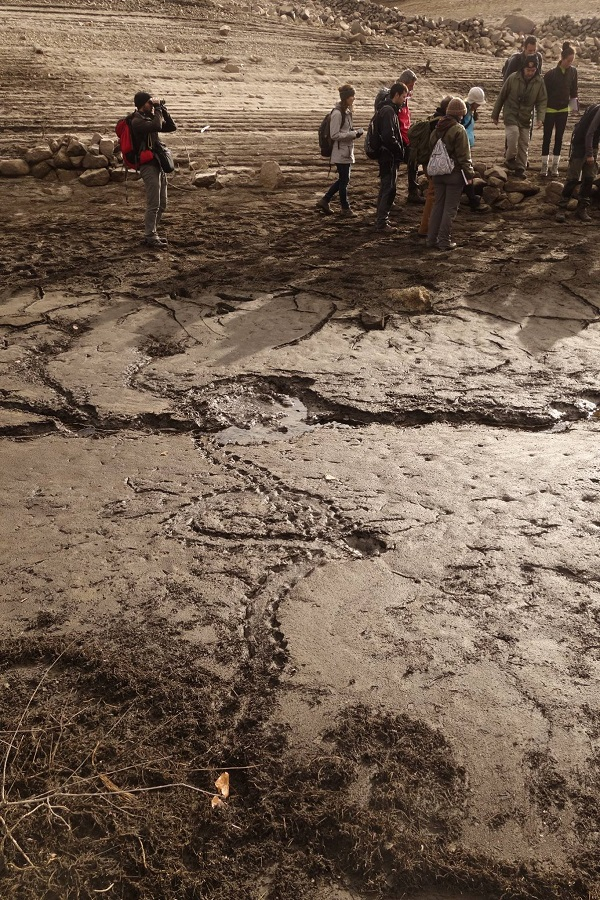 Trackers studying a dry river with a turtle trail.